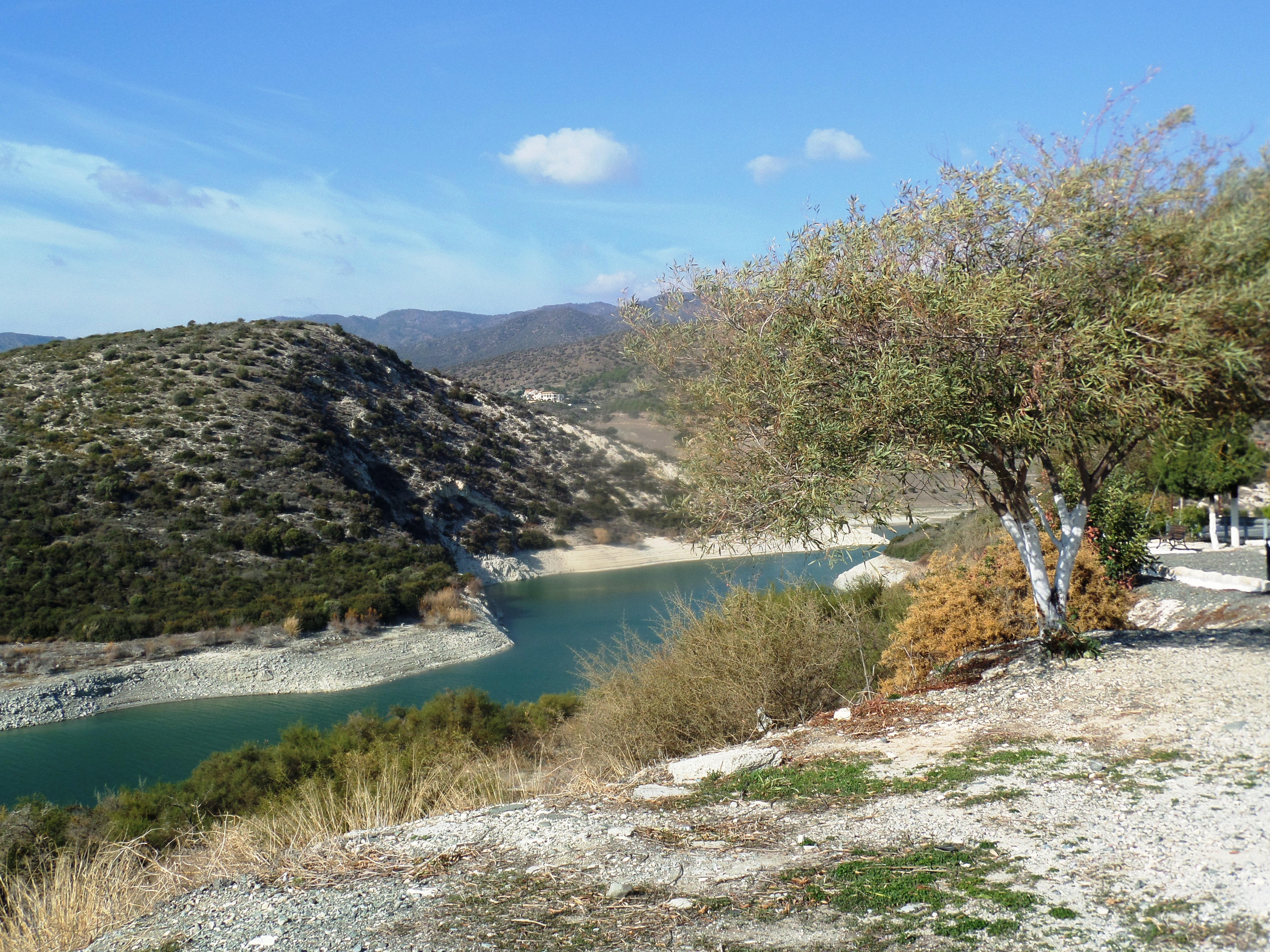 Yermasoyia Dam